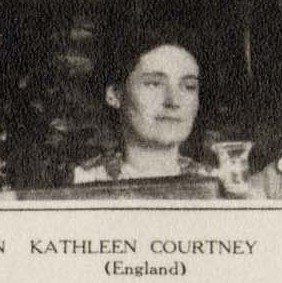 Kathleen Courtney?Kathleen Courtney - Officer of the International Congress of Women for a Permanent Peace, The Hague, 1915